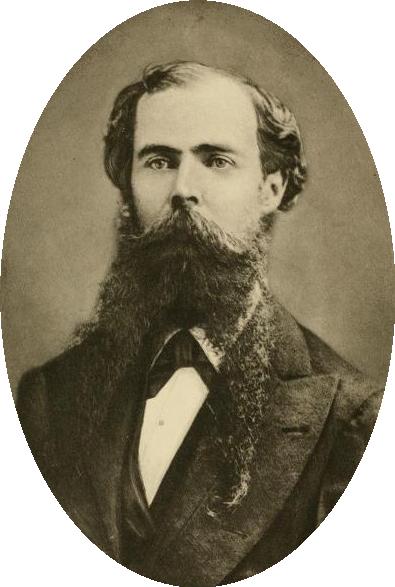 Henry Clay Work appearing in the The Songs of Henry Clay Work (1884). Note: In 1884, songriter's nephew Bertram G. Work published a collection of his 37 songs under the title The Songs of Henry Clay Work (reprinted in 1920). In an introduction to the 1884 edition, Bertram G. Work wrote, "Know the songs of a country and you will know its history for the true feeling of a people speaks through what they sing." (The Songs of Henry Clay Work)